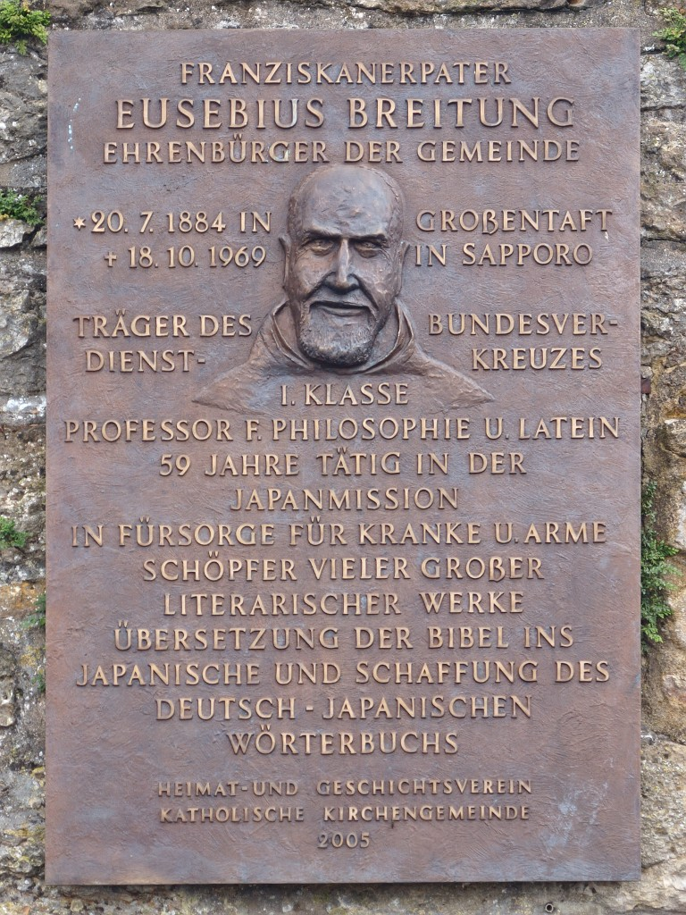 Commemorative plaque of franciscan padre Eusebius Breitung (* 20. Juli 1884 in Großentaft; † 18. October 1969 in Sapporo), he was professor for Philosophy and Latin, 59 years roman catholic missionary work in Japan, he translated the bible into Japanese and wrote the German-Japanese dictionary.